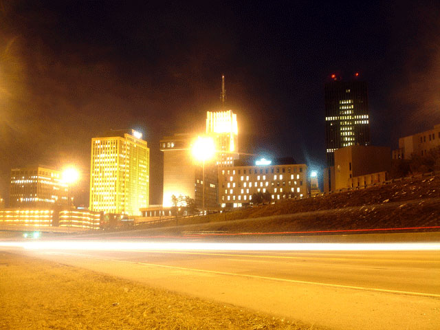 Image of the Akron Skyline from the Akron Innerbelt looking northeast.